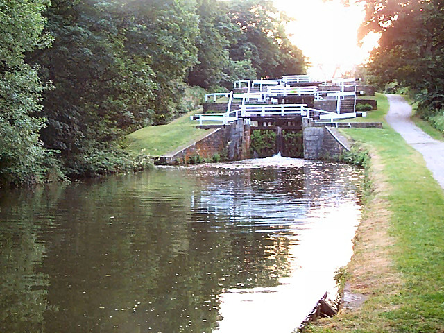 Field Locks. A three-rise staircase lock on the Leeds & Liverpool Canal